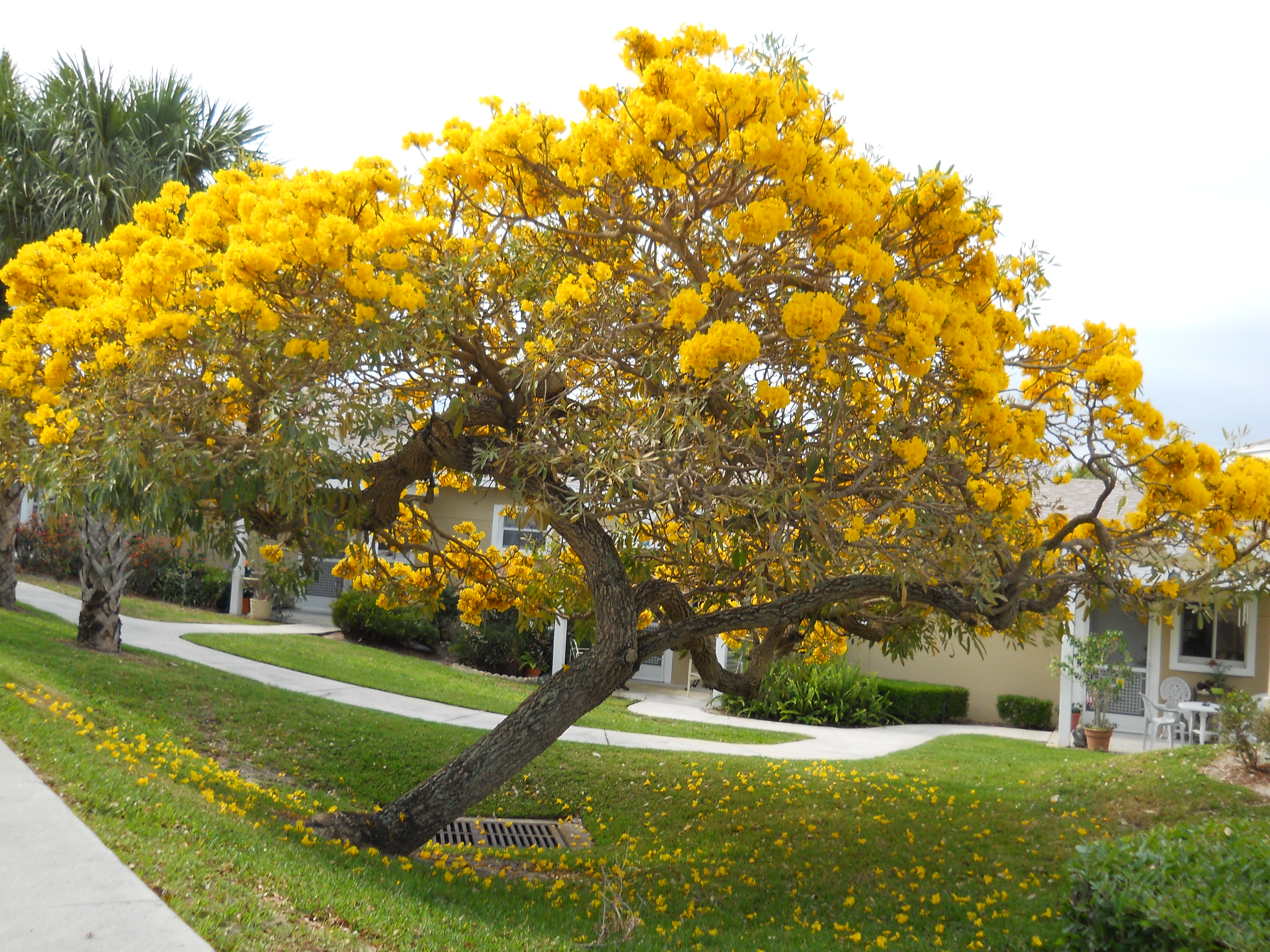 Tabebuia caraiba. Jensen Beach, Martin County, Florida